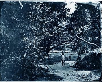 Children Playing in Stream, Singapore, circa 1864, by John Thomson. In the public domain. Source [1]